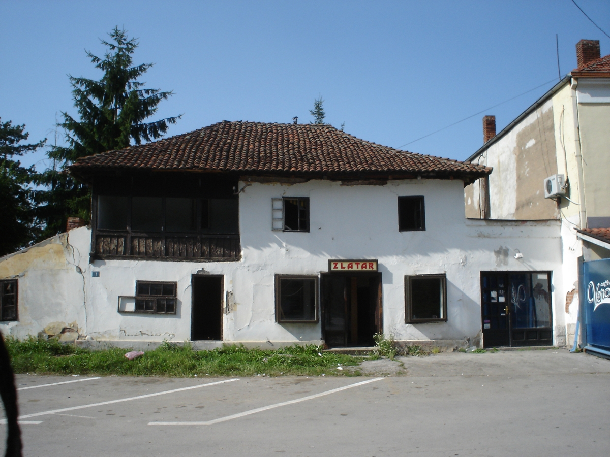 Old building with sign Goldsmith in Arilje,Serbia.